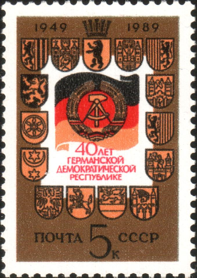 A 1989 USSR stamp: 40 years German Damocratic Republic (East Germany). Flag of the GDR and CoA of the 15 district capitals.